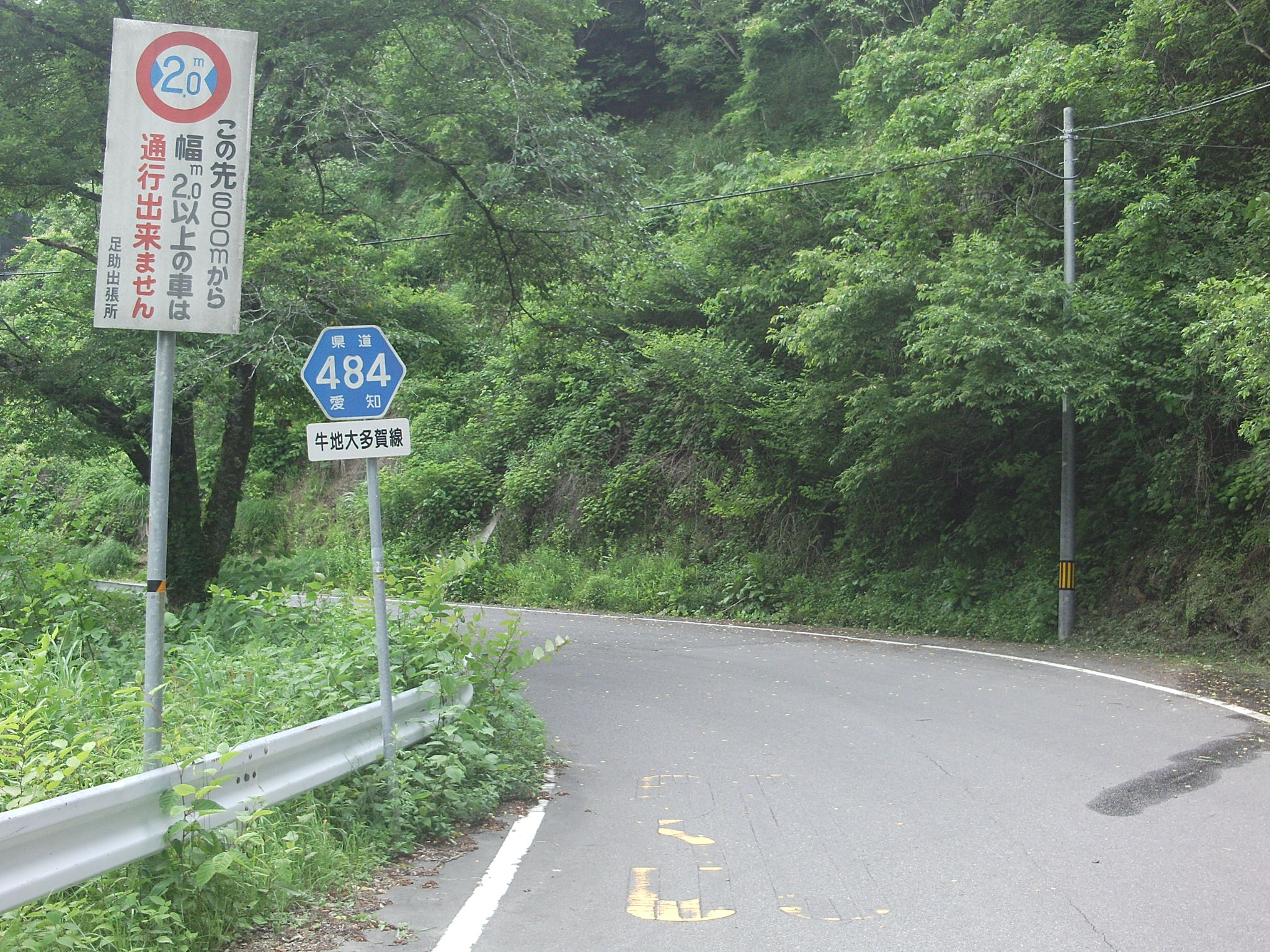 Aichi prefectural road No.484 in Ushijicho, Toyota, Aichi.